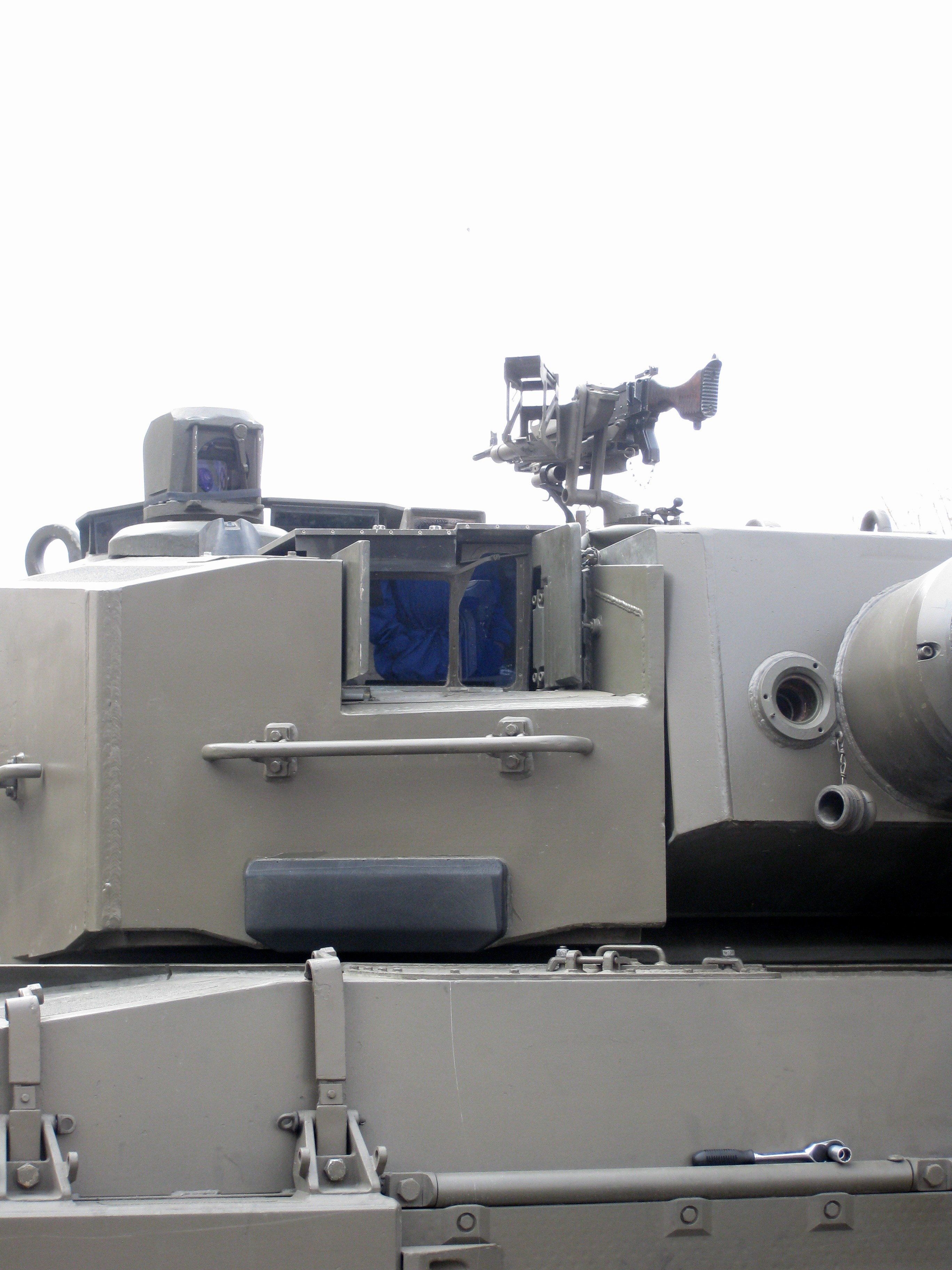 The sights on an Austrian Leopard 2A4 tank; also visible is the MG74 machine gun.